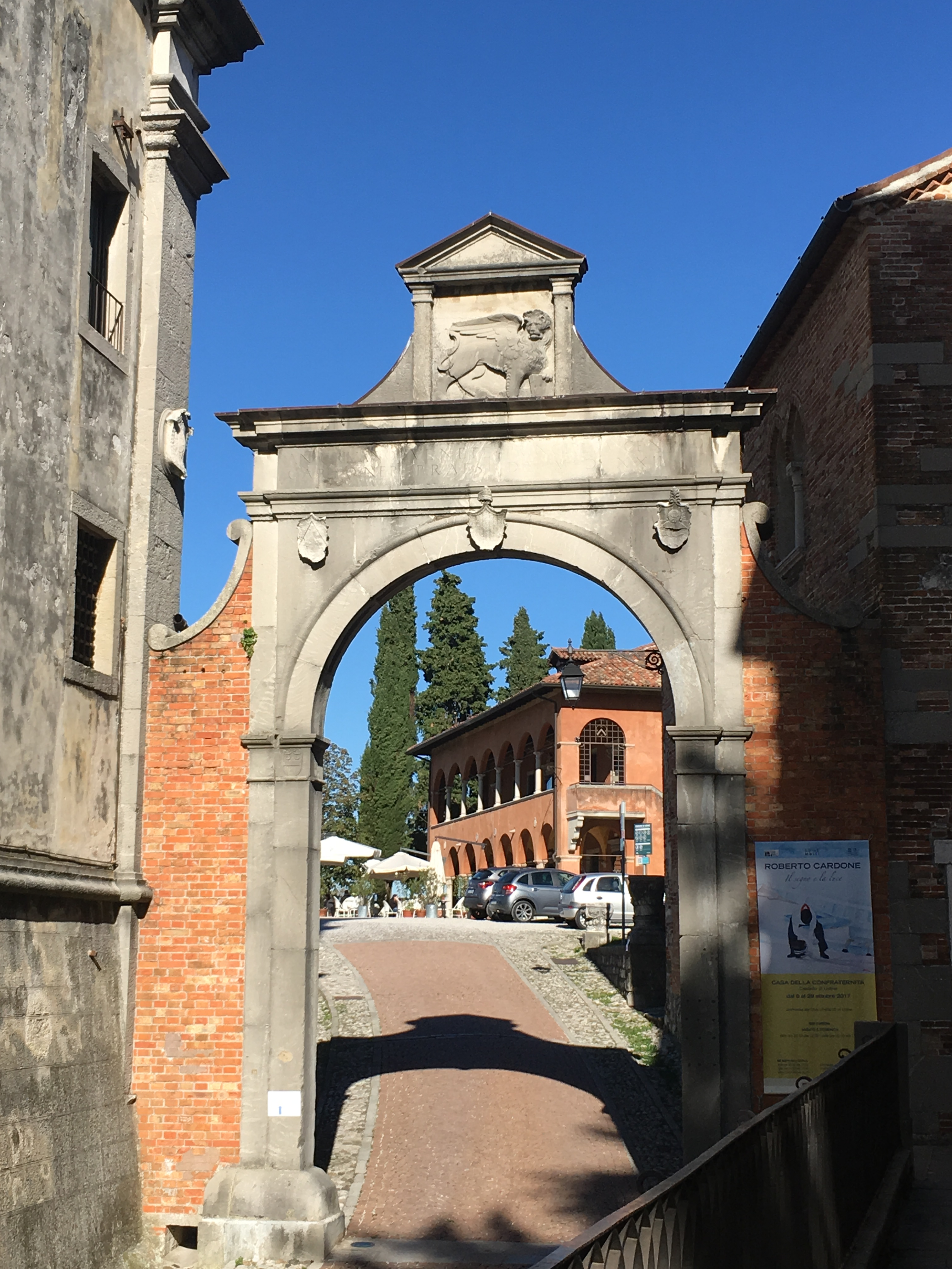 Porta Grimani